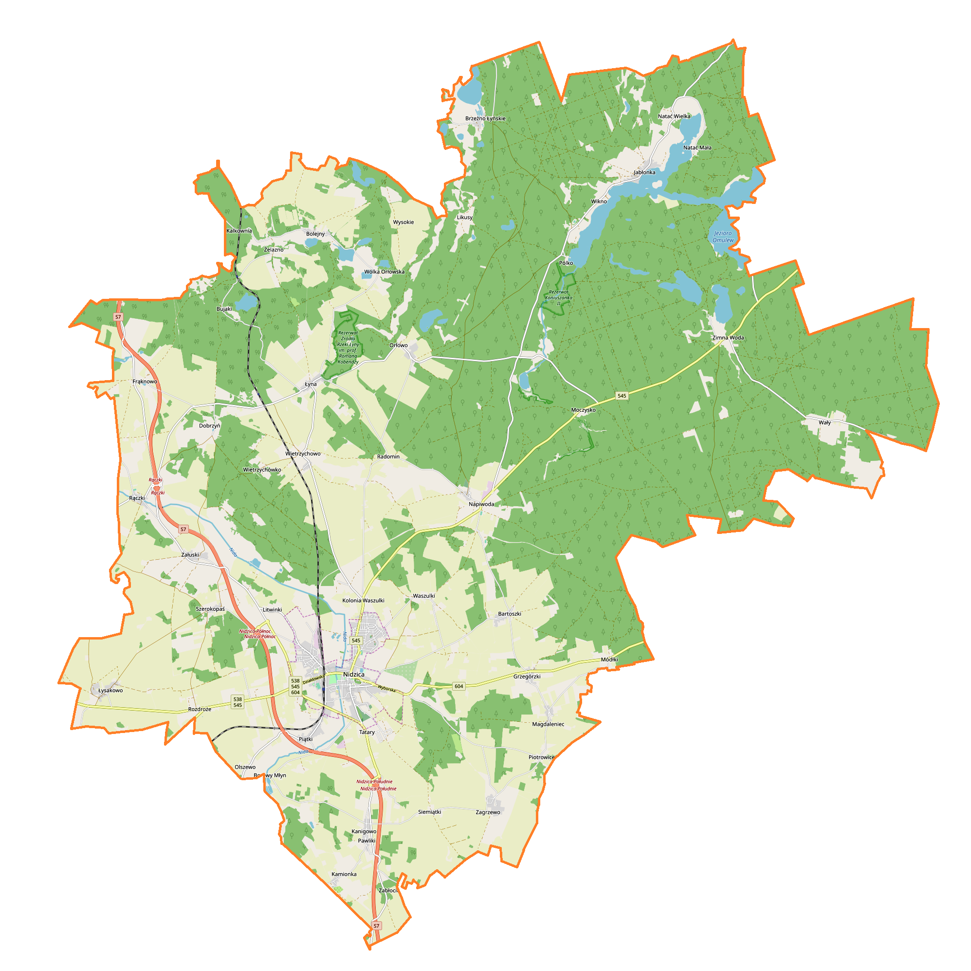 Location map